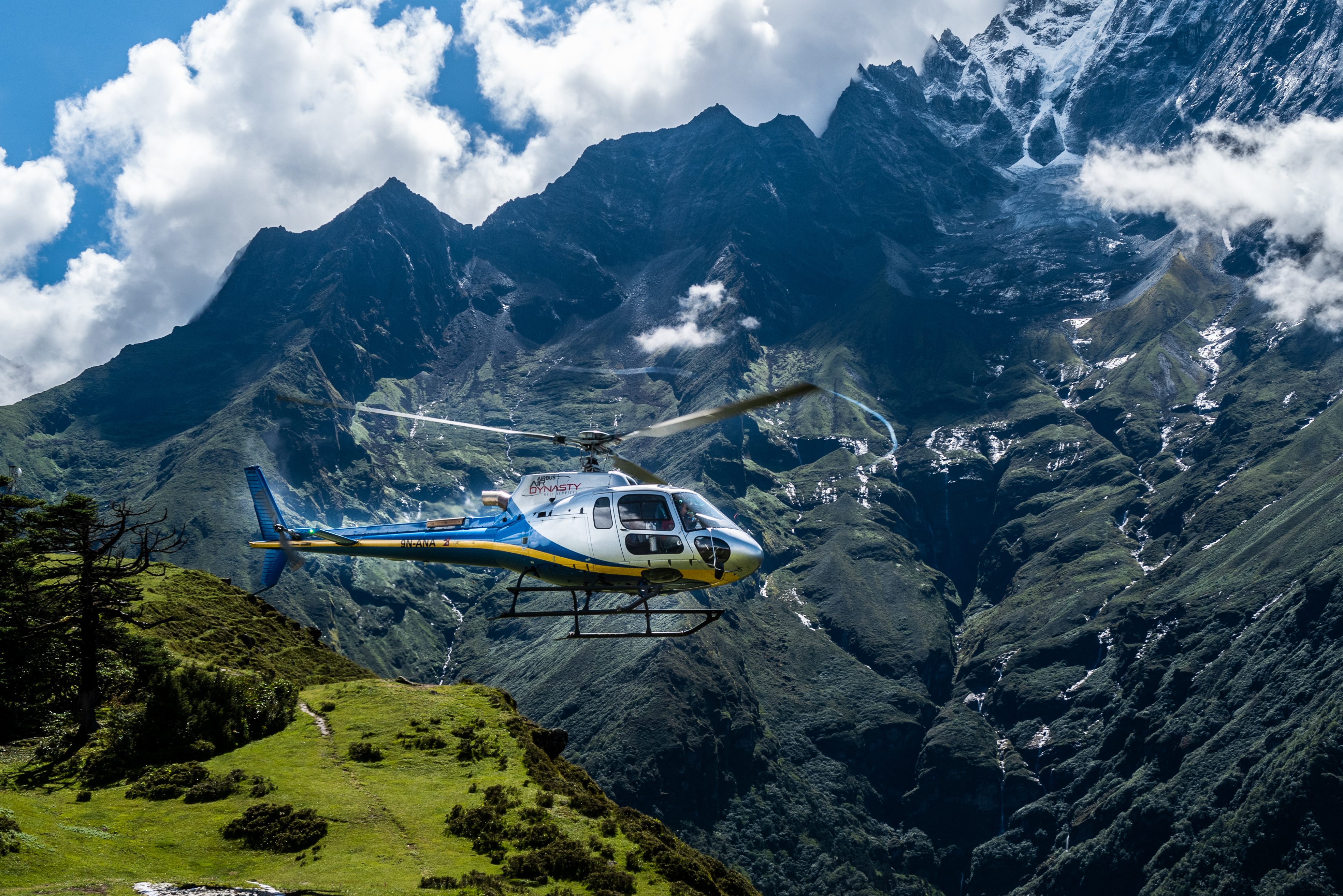 Airbus Helicopters H125 near the Hotel Everest View, Solukhumbu, Nepal